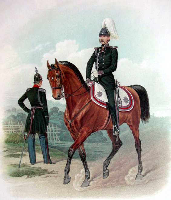 Wing-adjutant in the meaning of Aide-de-camp of His Imperial Majesty, 15. Mart 15, 1855.